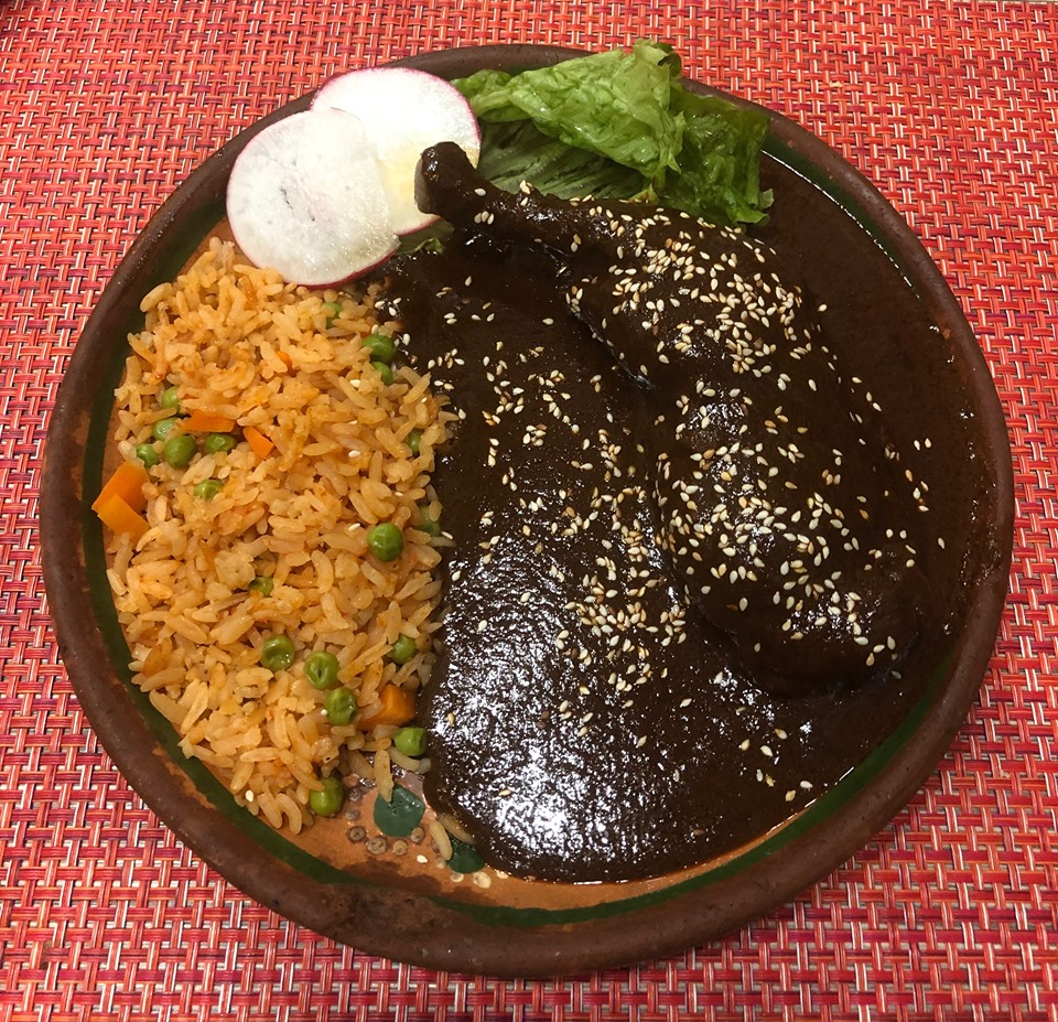 Pollo en mole from Puebla, Mexico.